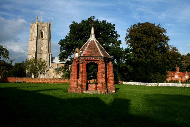 Village green , Heydon Heydon village is privately owned, belonging to the estate of the Bulwer Long family since 1640. There has been no new building in over 100 years, giving a feeling of "stepping back in time". It was created a conservation area in 1971 and has often been used as the set for TV and film productions.